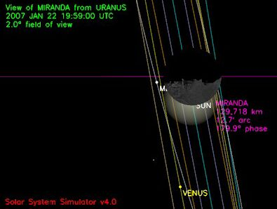 Simulation of Miranda eclipsing the Sun as seen from Uranus on 2007 January 22nd. Miranda has an orbit with an inclination of 4.2° to Uranus' equator. In January 2007, while approaching the December 7th, 2007 equinox, Miranda produced brief solar eclipses over the center of Uranus. (This image is cropped from the source image.)